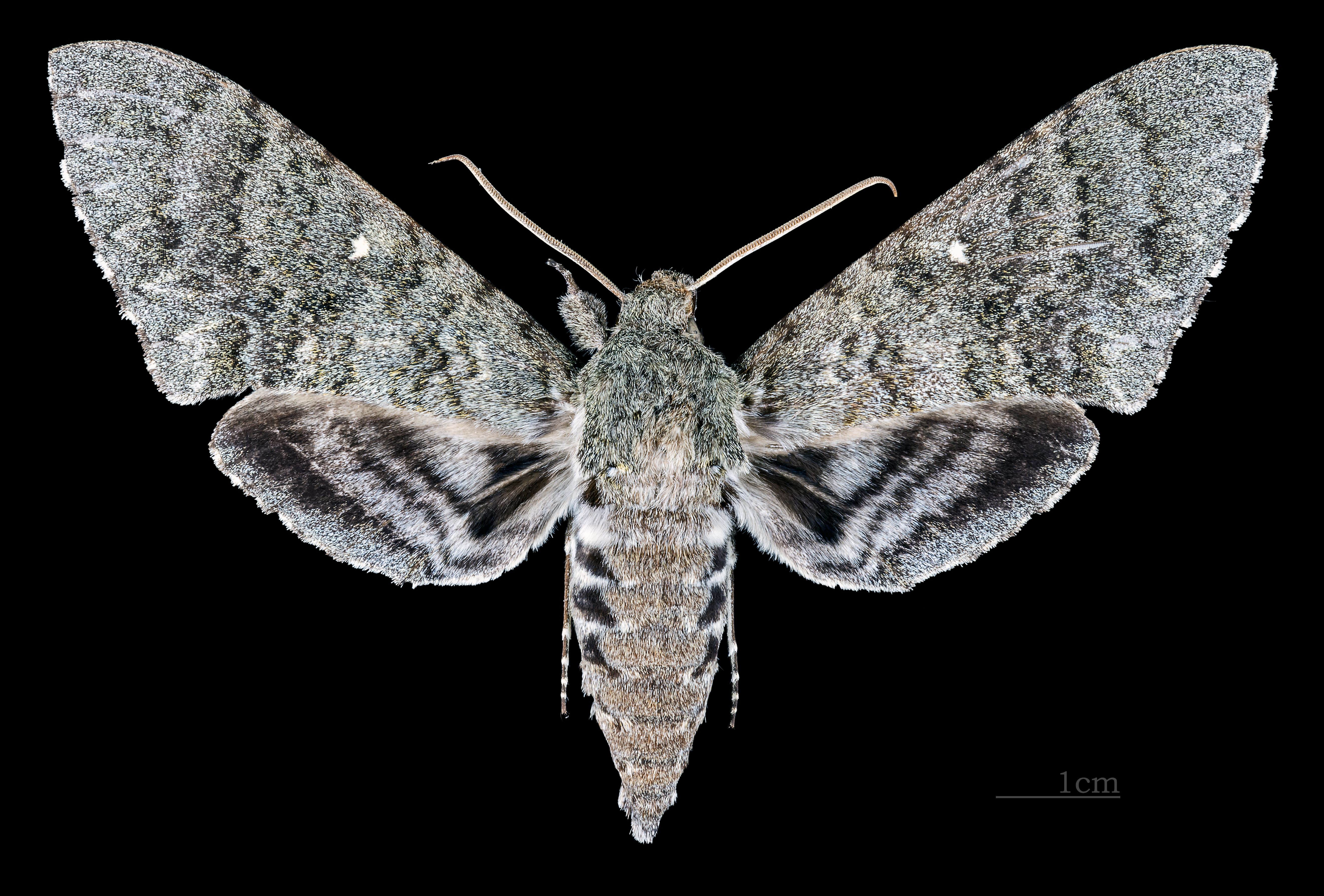 Manduca muscosa - Dorsal side Collection of the Mathematician Laurent Schwartz